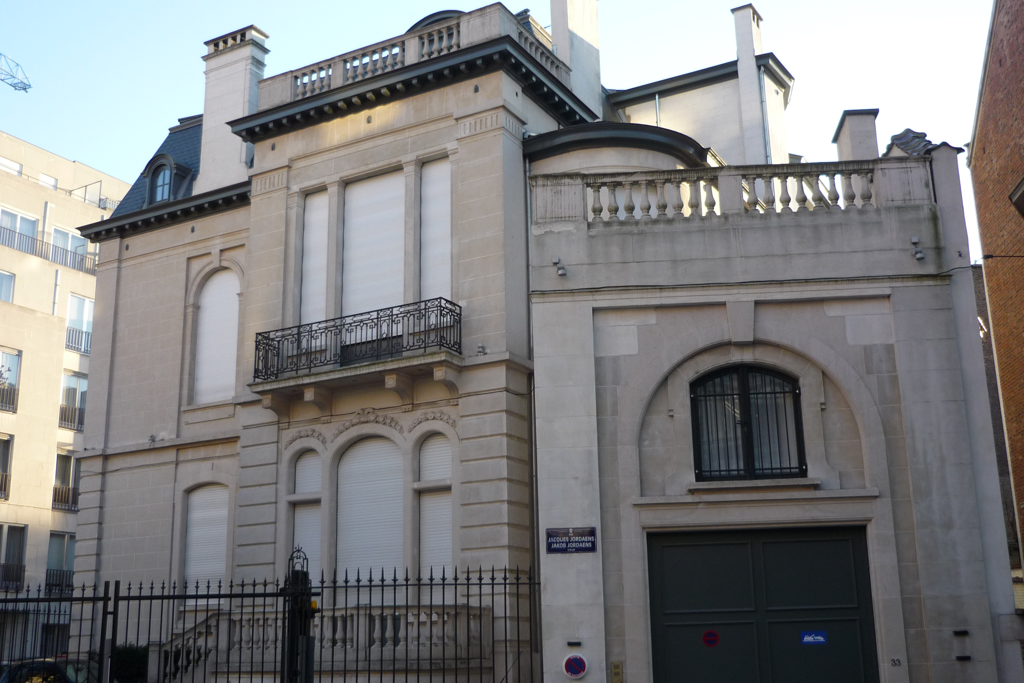 The frontage of the Van Dievoet mansion giving to the Jacques Jordaens street n° 33 in Brussels (the other frontage is giving to De Crayer street n° 33